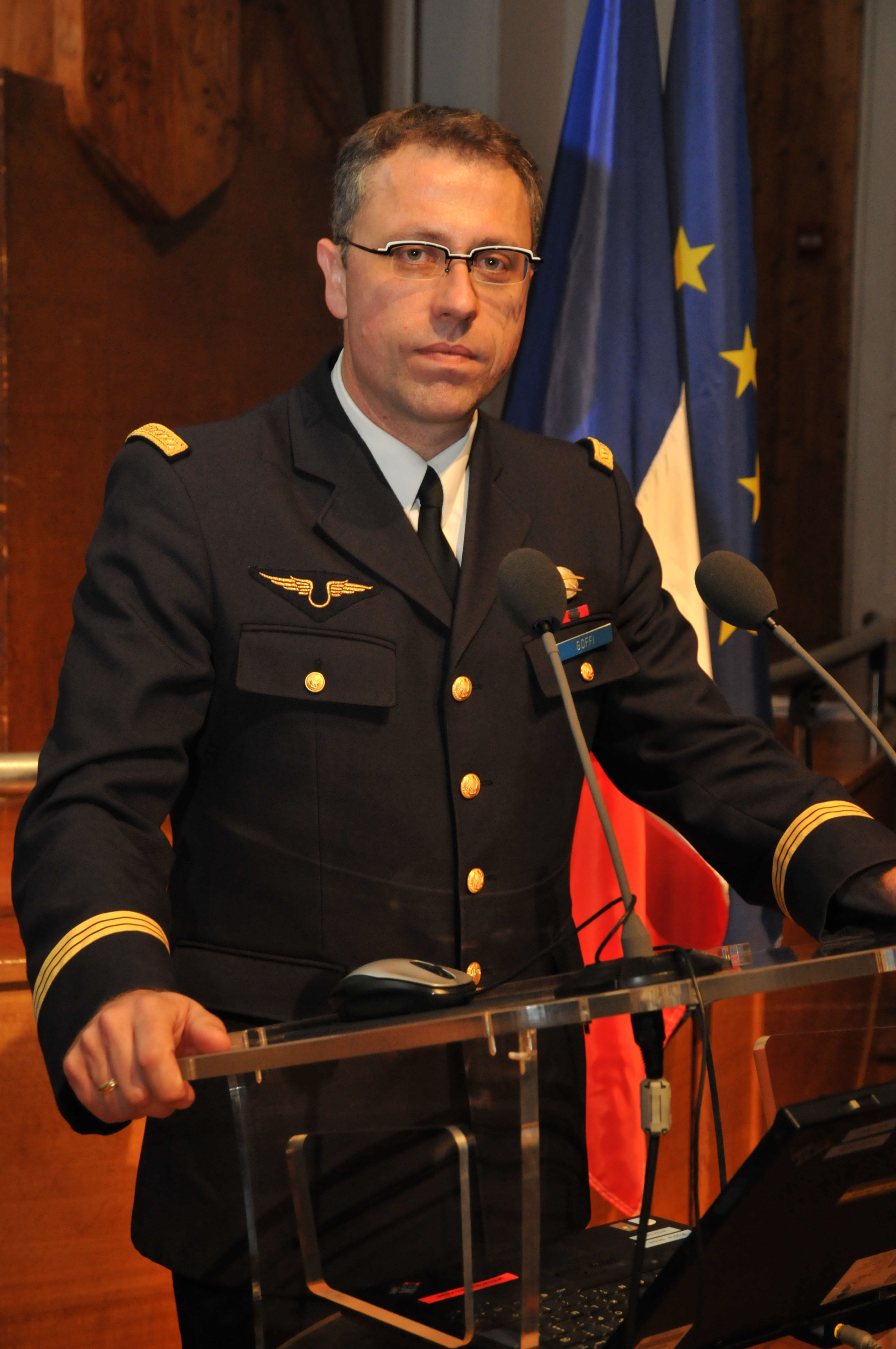 Emmanuel Goffi in Salon-de-Provence, France, in 2010